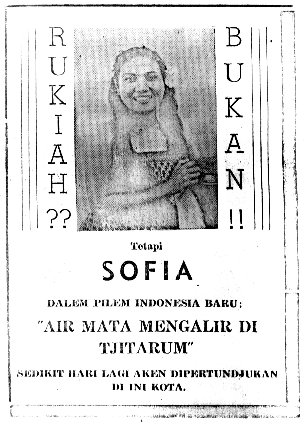 An advertisement for the 1948 film Air Mata Mengalir di Tjitaroem